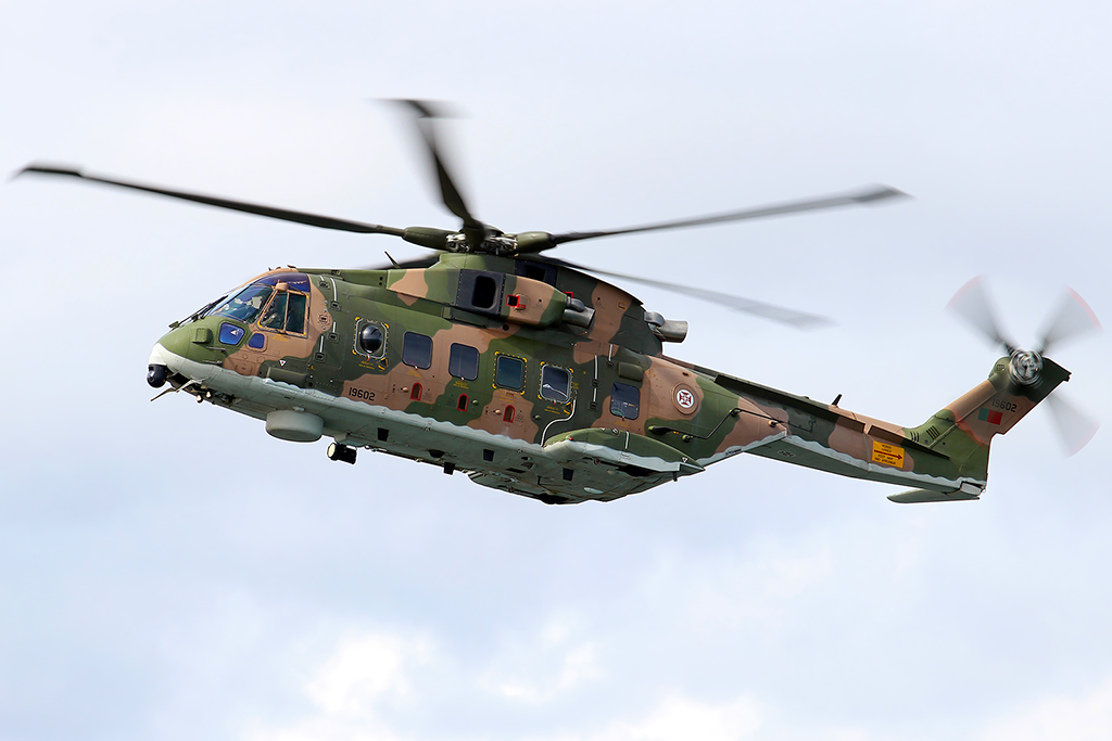 Portuguese Air Force EH-101 Merlin over Cascais bay.